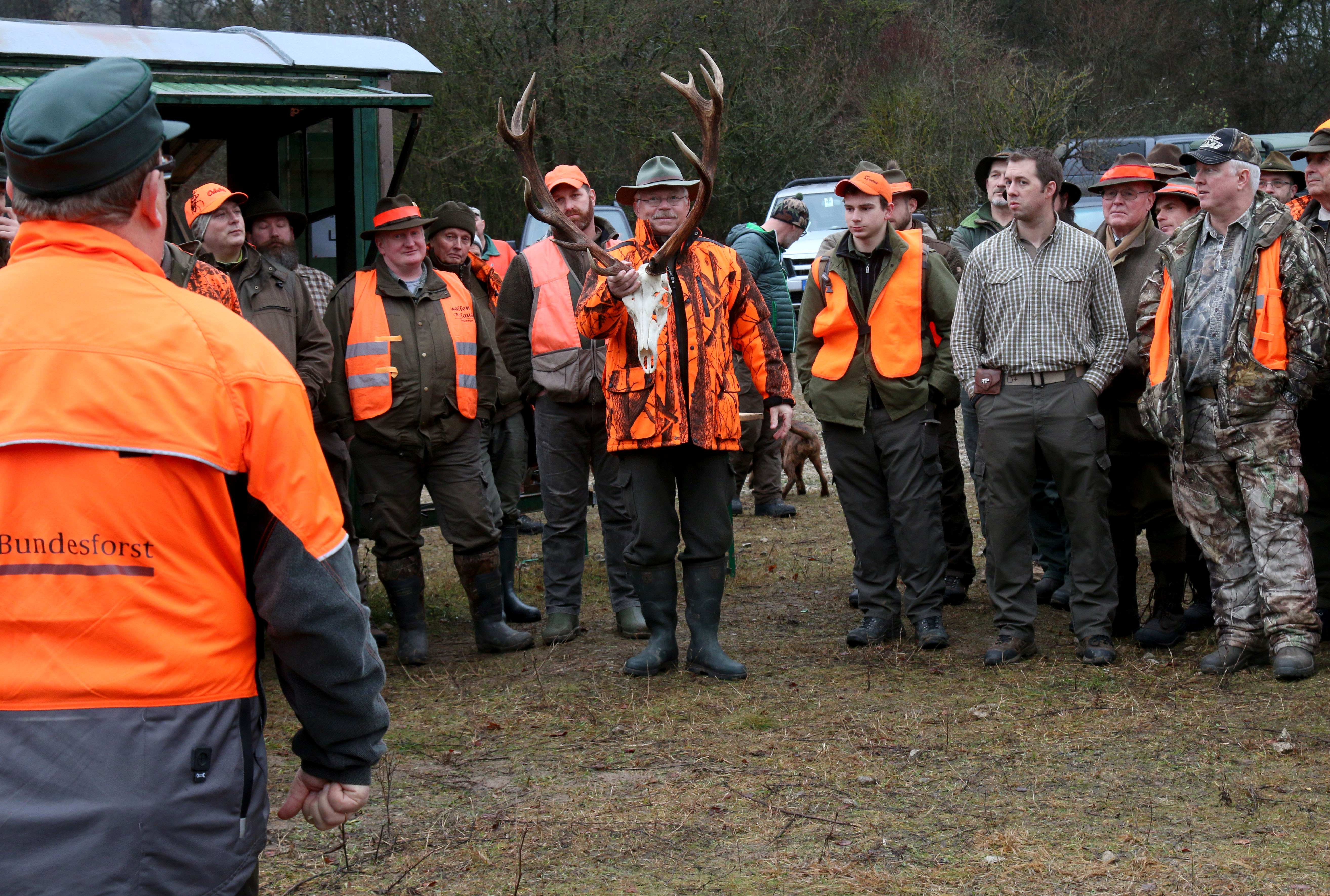 A member of the Bundesforst provides examples of different classes of antlers which hunters may target during the 7th annual German-American Partnership hunt at Hohenfels Training Area, Dec 17, 2015. (Photo Credit: Sgt. Gemma Iglesias)